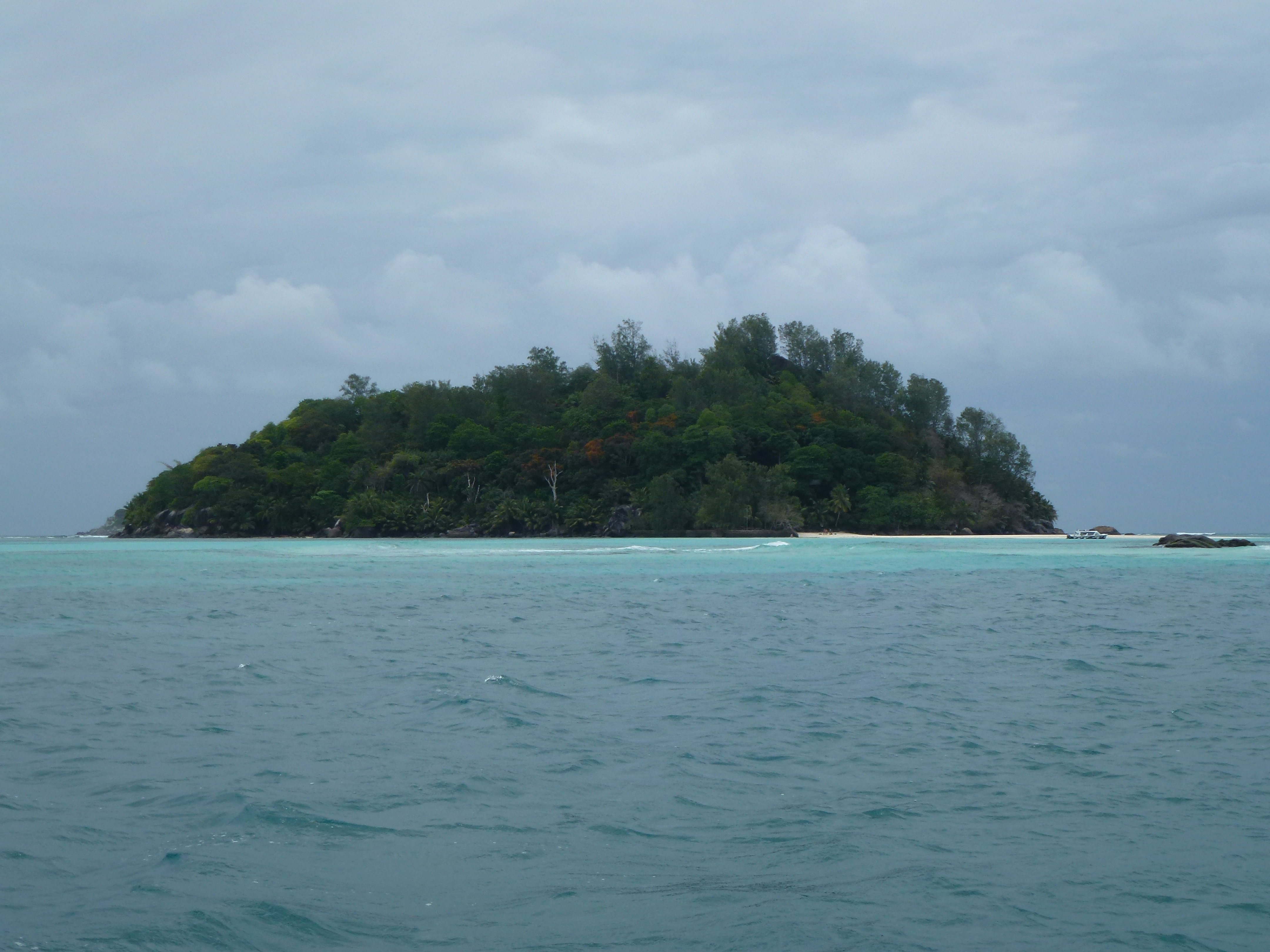 Moyenne Island, Seychelles